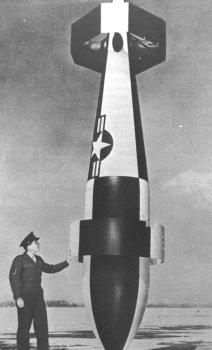 Bell YASM-A-1 (VB-13) TARZON radio-guided bomb prototype.